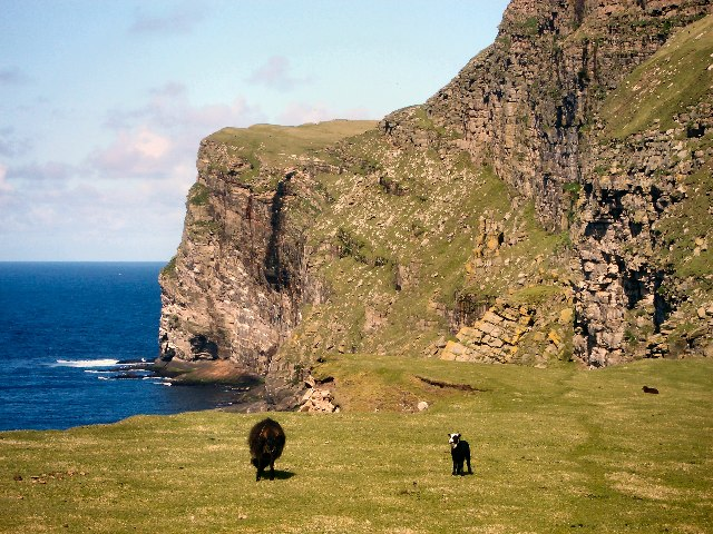 Cliffs north west of Da Smaalie, Foula.